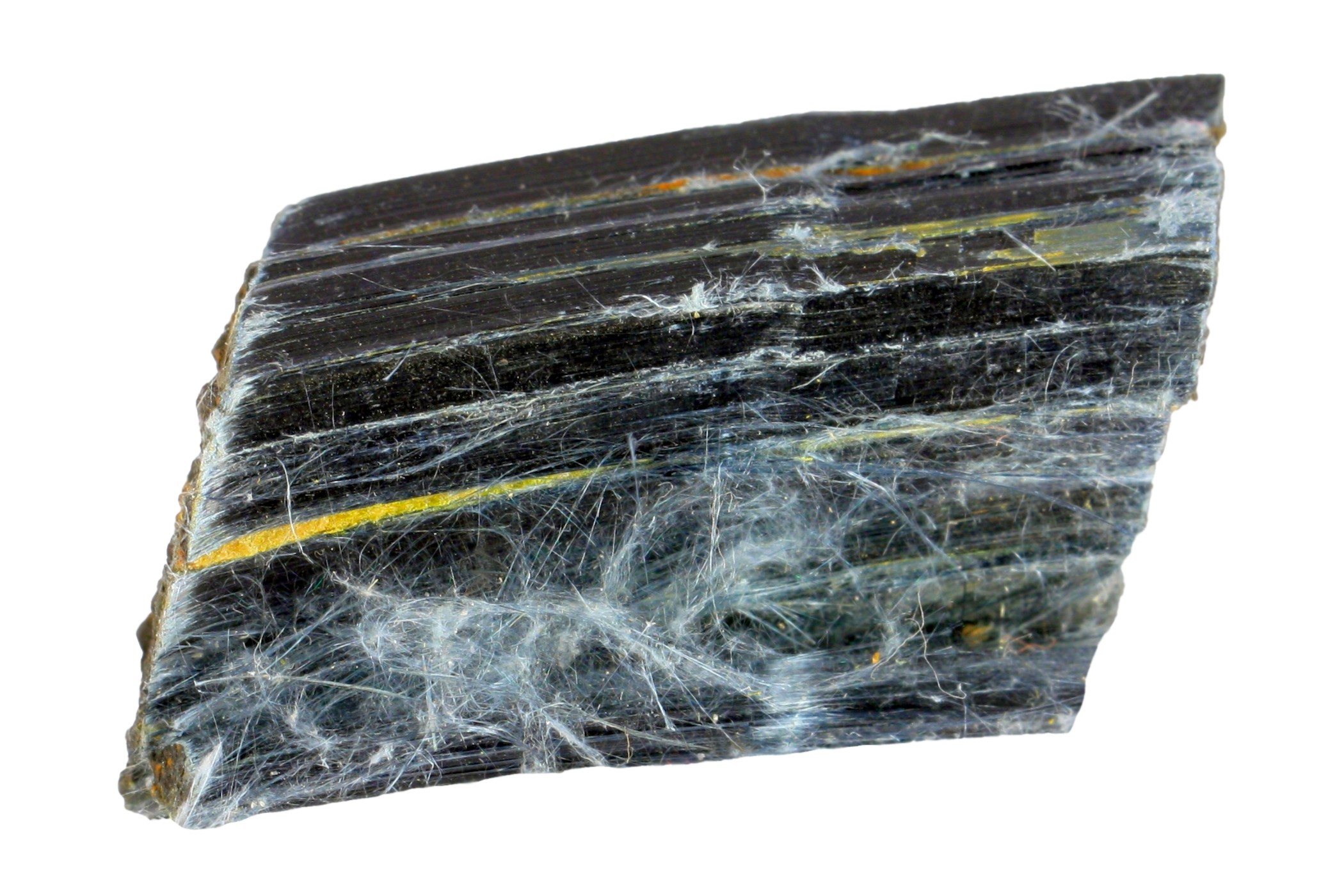 Blue asbestos (crocidolite) from South Africa. This is the most dangerous form of asbestos outweighing by far the health risks associated with more common green asbestos. The width of the sample is 3 cm. Additional information from the source: [2]